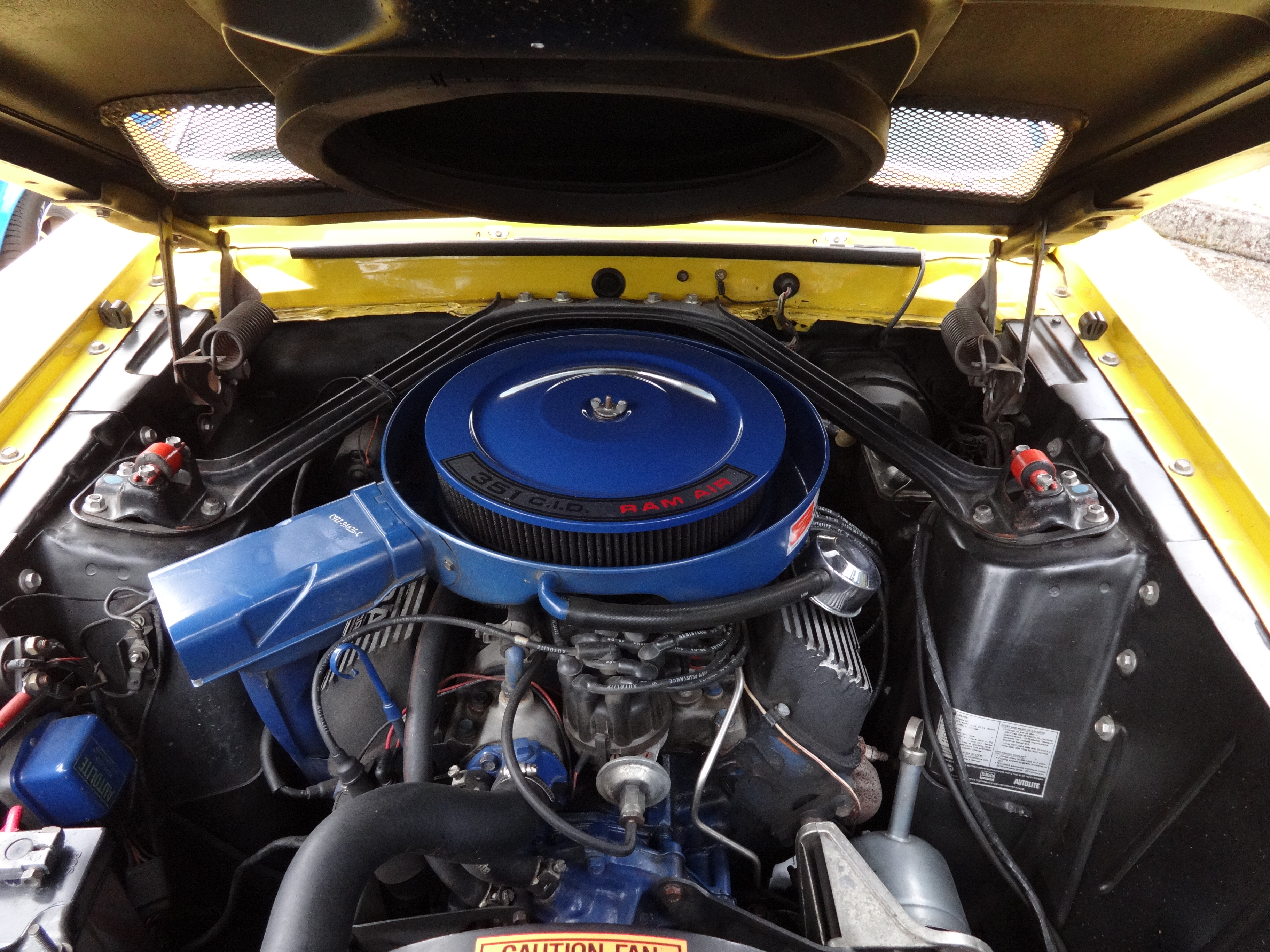 351 Windsor V8